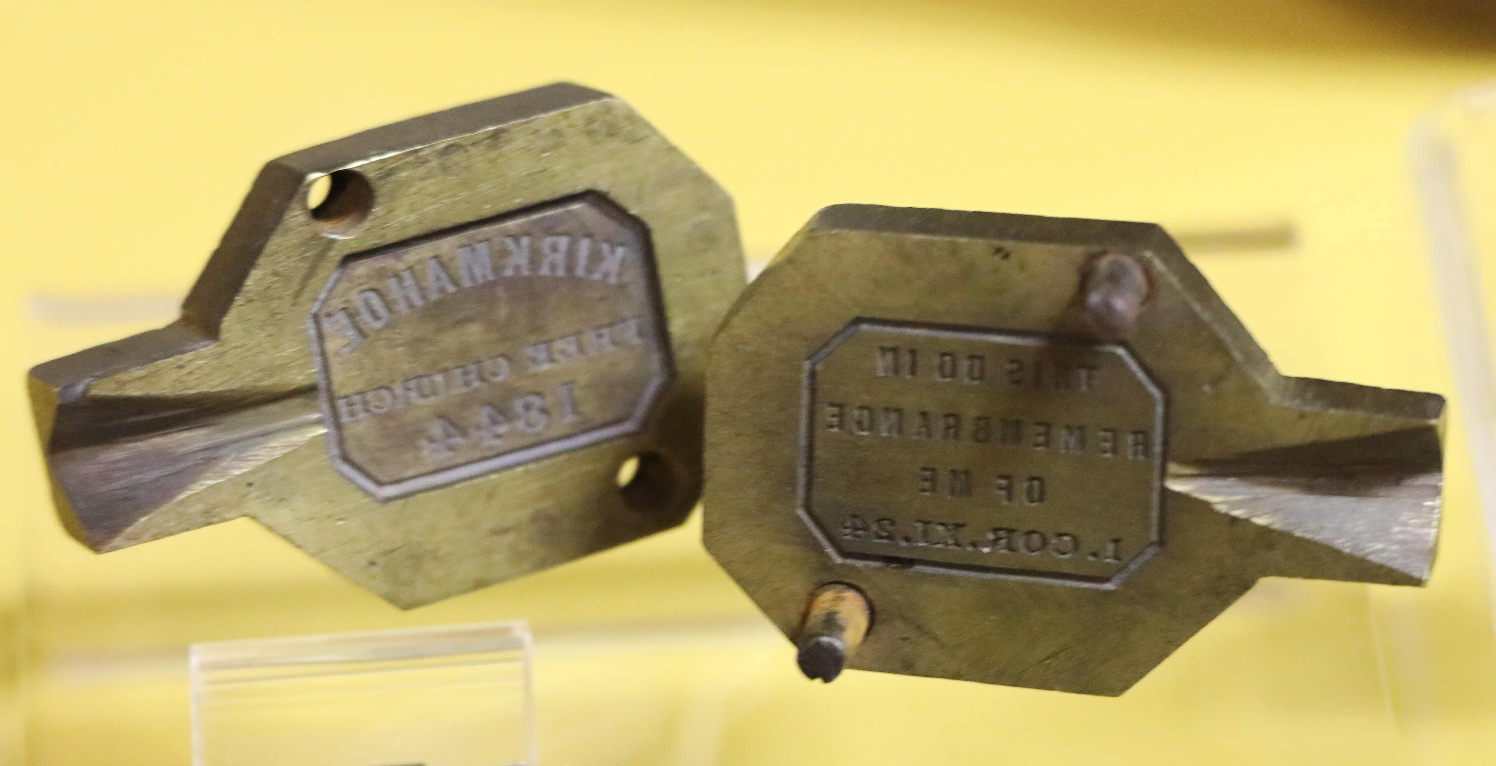 Photo of the two halves of a mould for making communion tokens